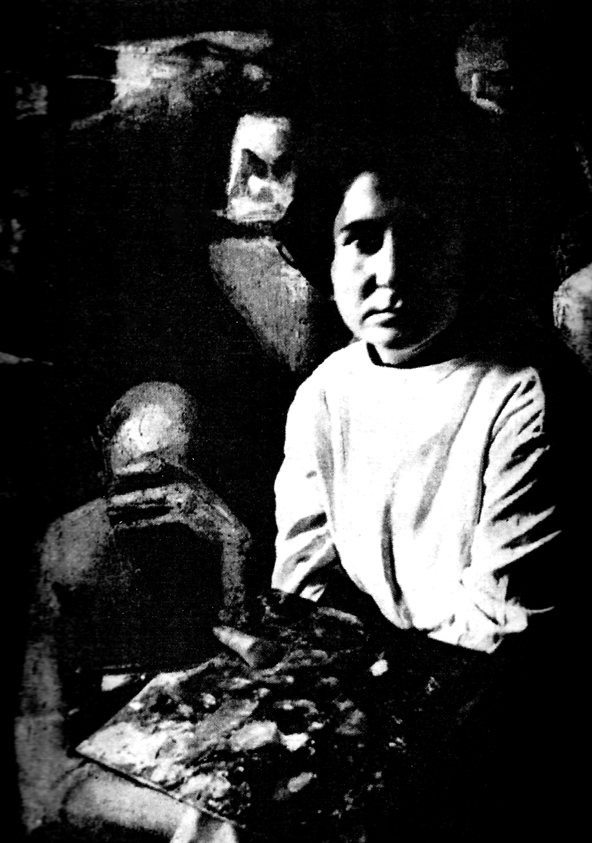 Teresa Peña, Spanish contemporary painter